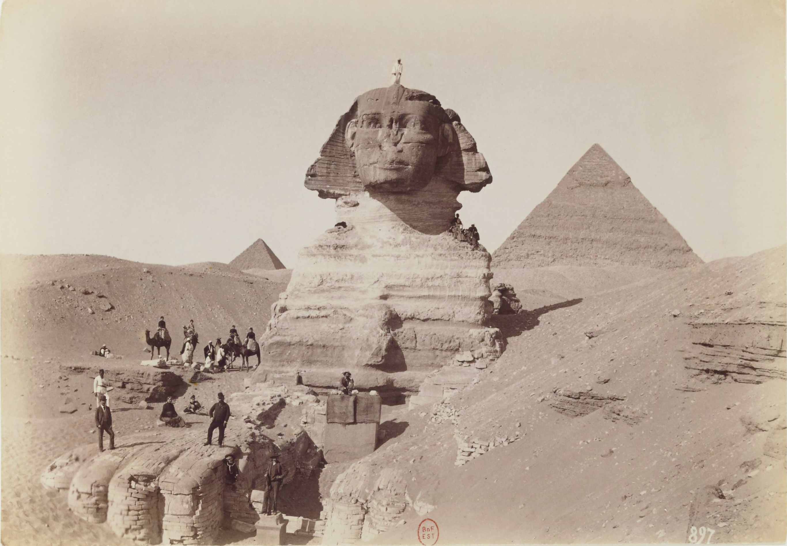 Sphinx an the Pyramids of Ghiza